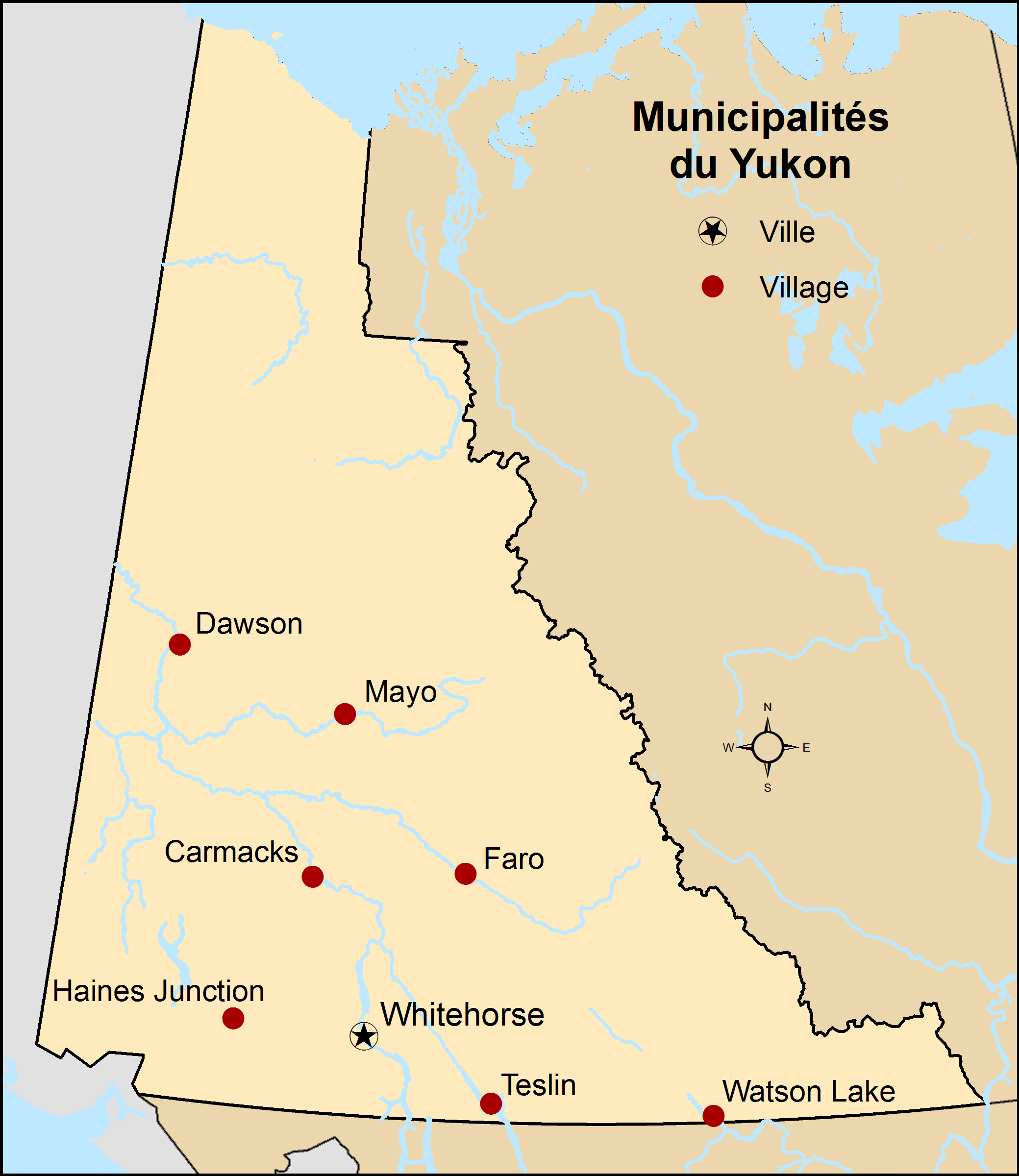 les municipalités du Yukon, 2013